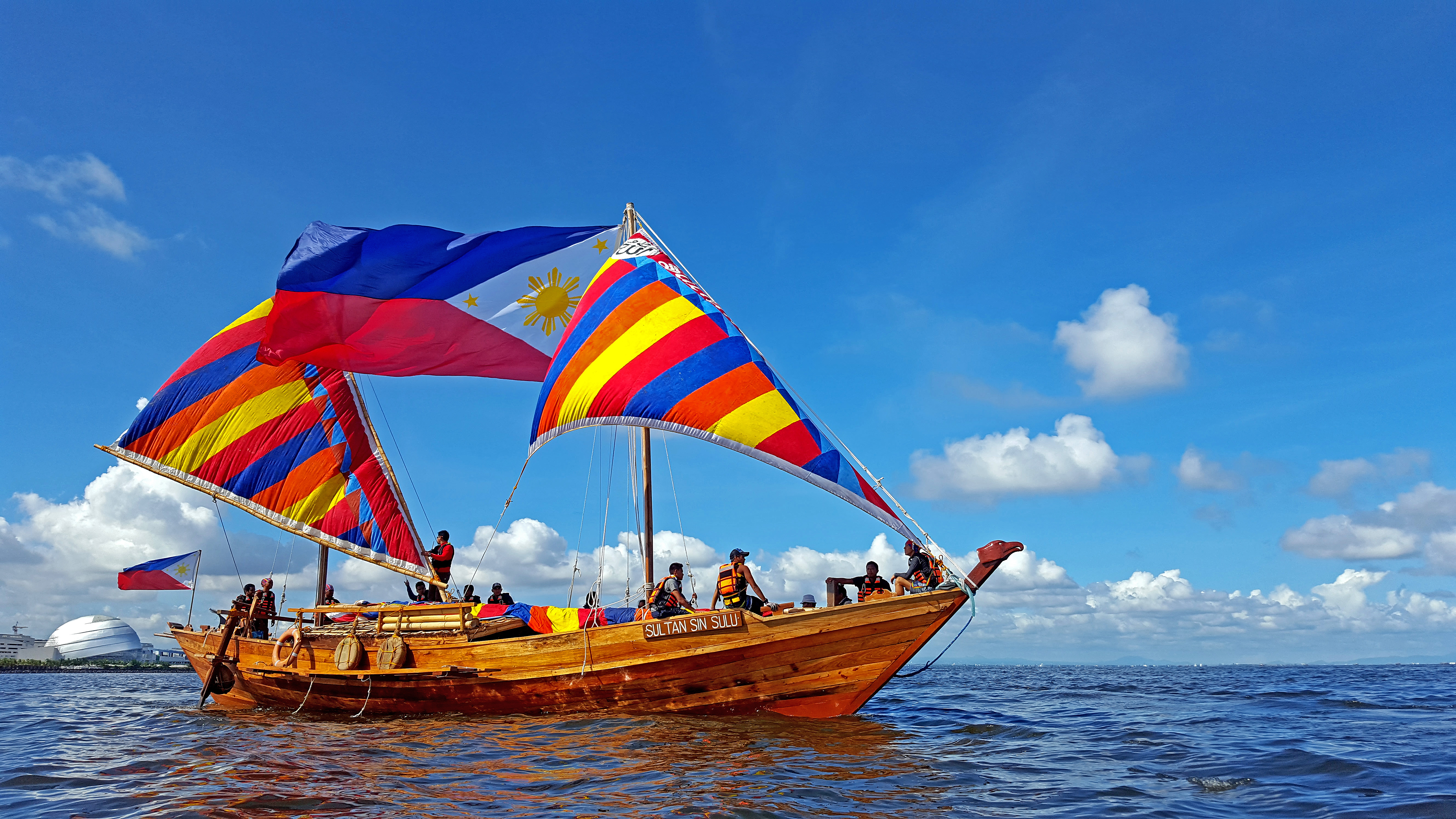 Balangay boat in the waters of Manila Bay with large Philippine flag